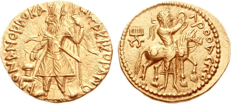 Coin of Kanisha I, king of the kings, Kushana empire